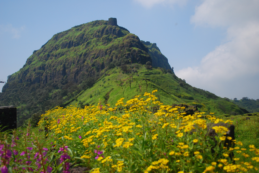 View of the main citadel of Rajgad. (State Maharashtra, India). This is the fort, where the great king Shivaji spent almost half of his lifetime.